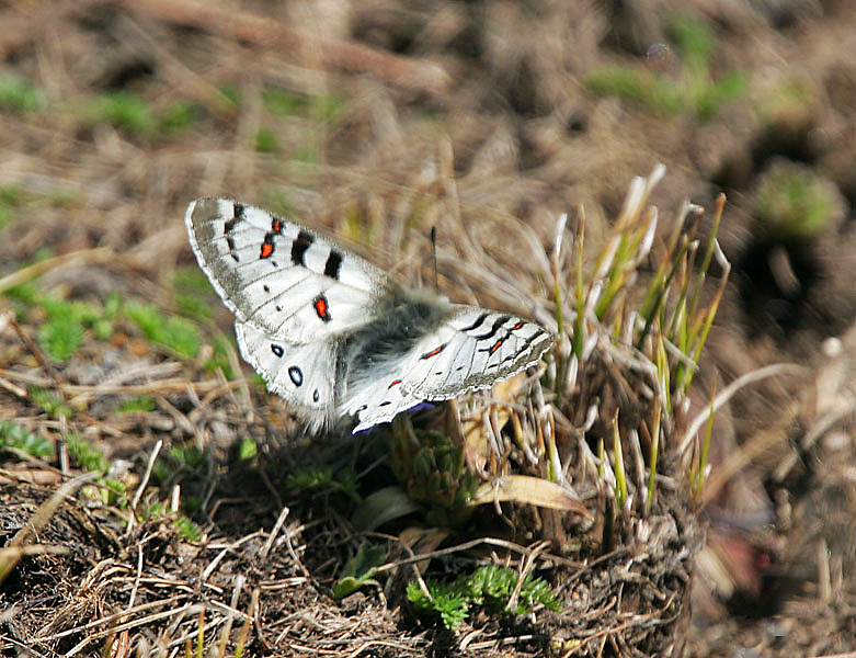 Common Blue Apollo Parnassius hardwickii at Biskeri Ridge (13,800 ft.) in Kullu- Manali District of Himachal Pradesh, India.